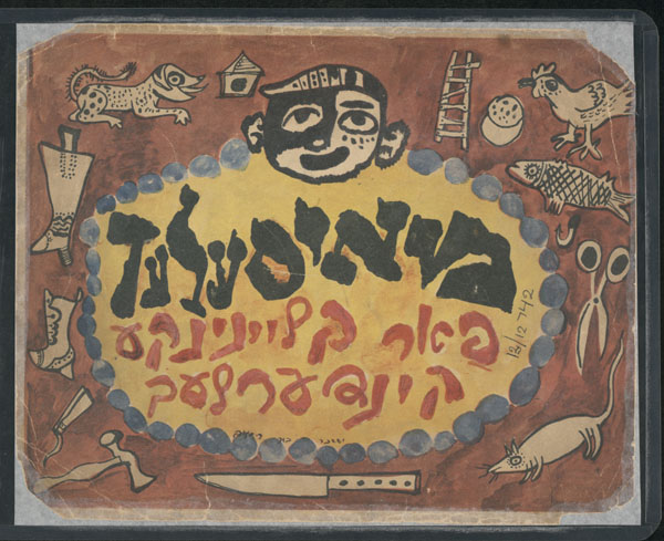 To read the entire book, clickhere. Illustrator: Ryback, Issachar, 1897-1935 Author: Margolin, Miriam, 1896-1968 Object Origin: Soviet Union Dimensions: 12 pages Date: 1922 Persistent URL: Repository: YIVO Institute for Jewish Research, 15 West 16th Street, New York, NY 10011 Call Number: USSR 1922 Rights Information: No known copyright restrictions; may be subject to third party rights. For more copyright information, click here. See more information about this image and others at CJH Digital Collections. Digital images created by the Gruss Lipper Digital Laboratory at the Center for Jewish History